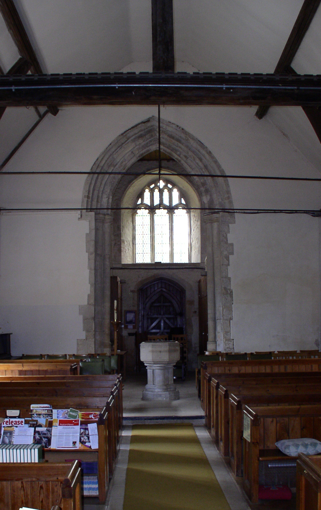 St James' Church, Birdham, West Sussex - the nave looking east showing the tower arch.